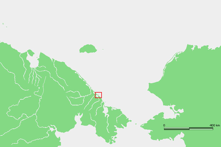 location map